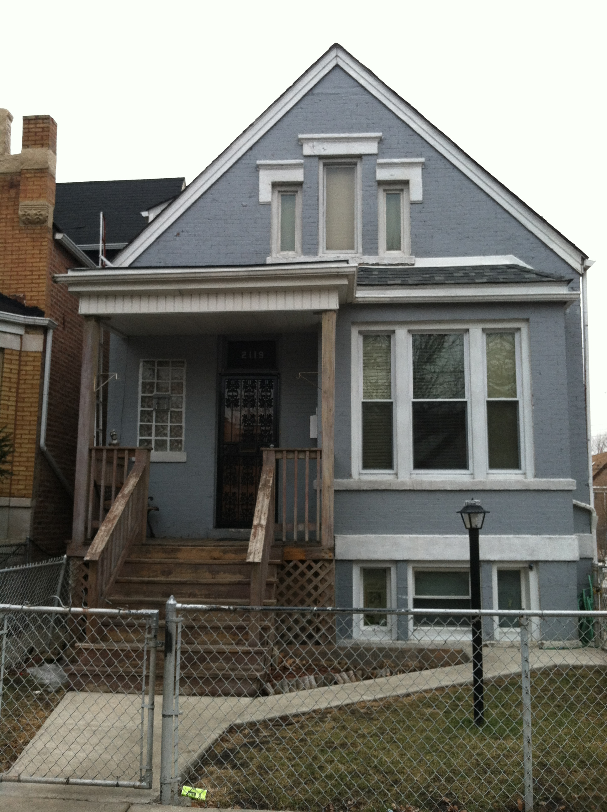 The Gallagher House from "Shameless"